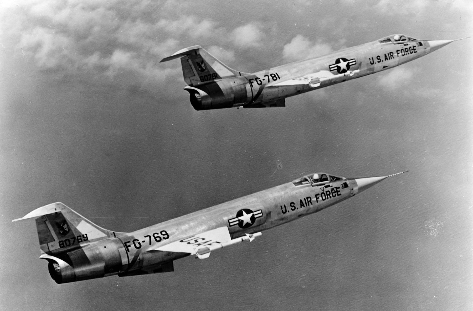 A formation of two U.S. Air Force Lockheed F-104A-15-LO Starfighters (s/n 56-0769 and 56-0781) in flight.